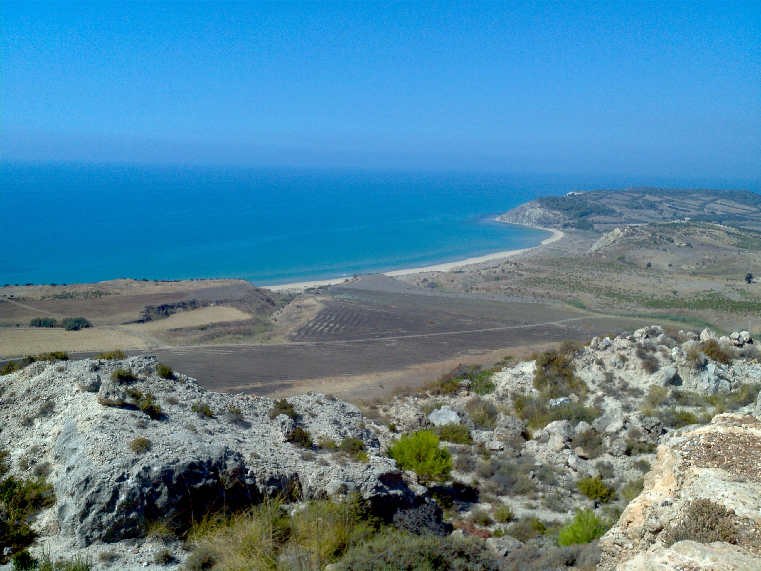 La riserva di Torre Salsa a Siculiana